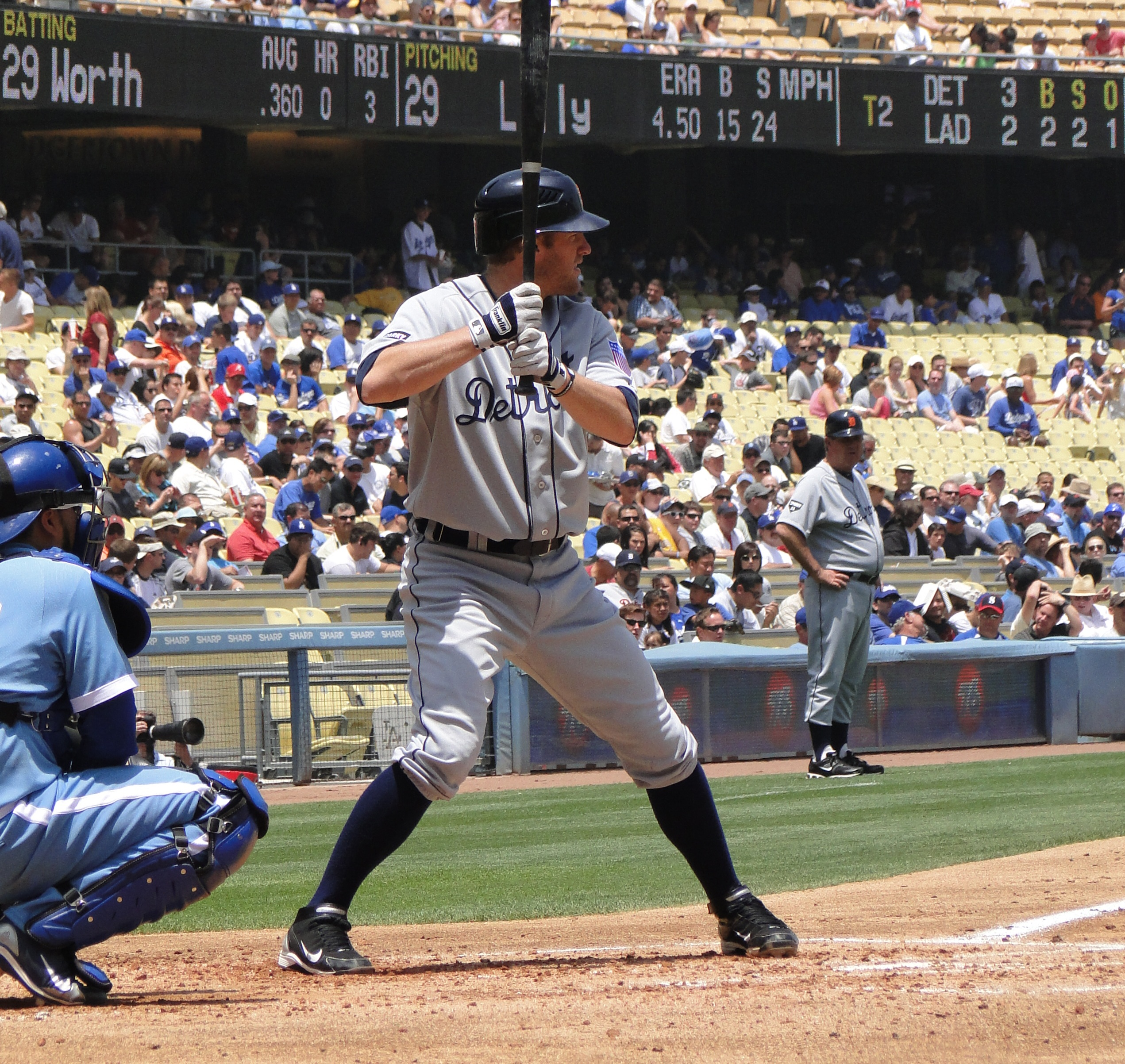 Danny Worth at Dodger Stadium.